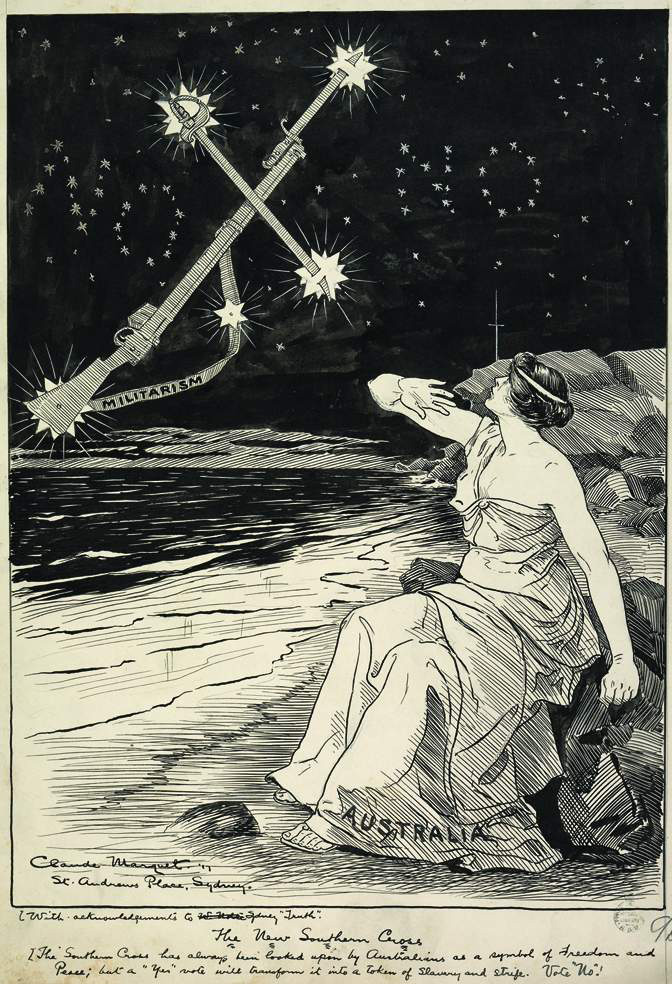 A cartoon by Claude Marquet in opposition to Conscription during the 1916 plebiscite. Made for the Australian Worker in 1916.